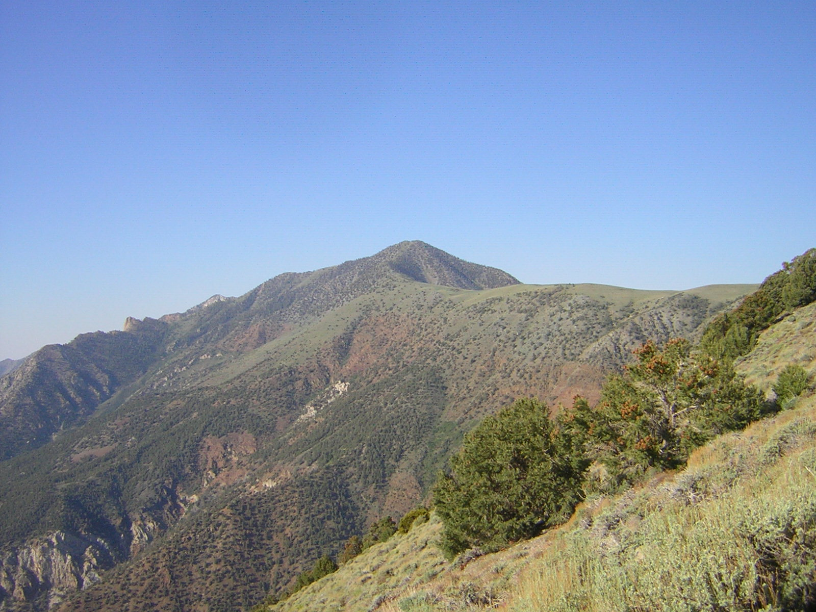 Telescope Peak and the Panamint Range from summit trail, Death Valley National Park, California, United States.